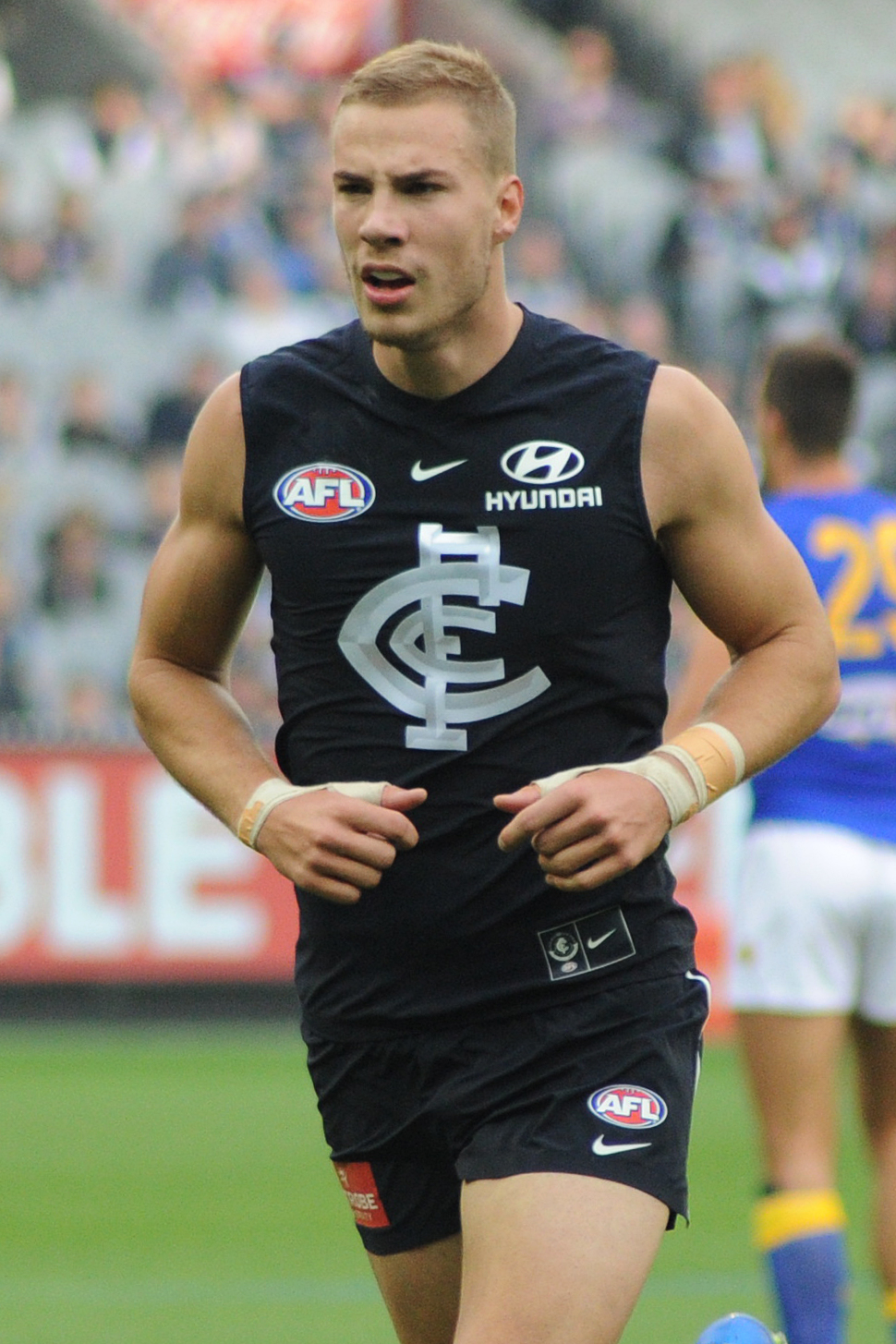 Harry McKay during the AFL round five match between Carlton and West Coast on 21 April 2018 at the Melbourne Cricket Ground in Melbourne, Victoria.